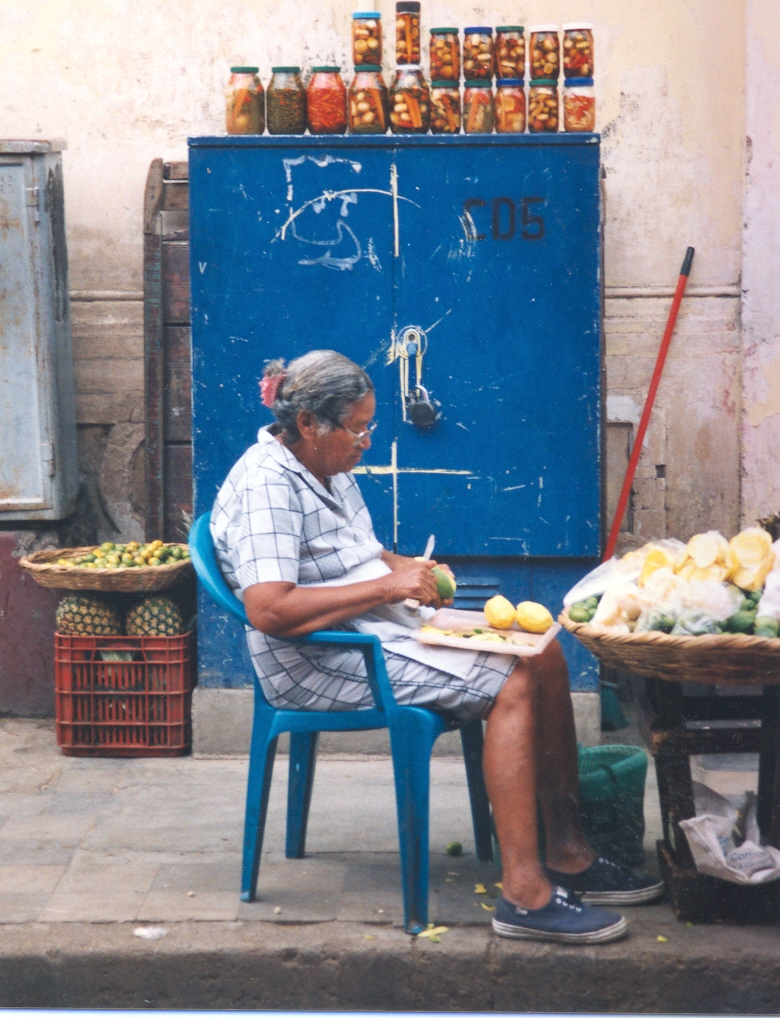 Woman in Granada, 2004